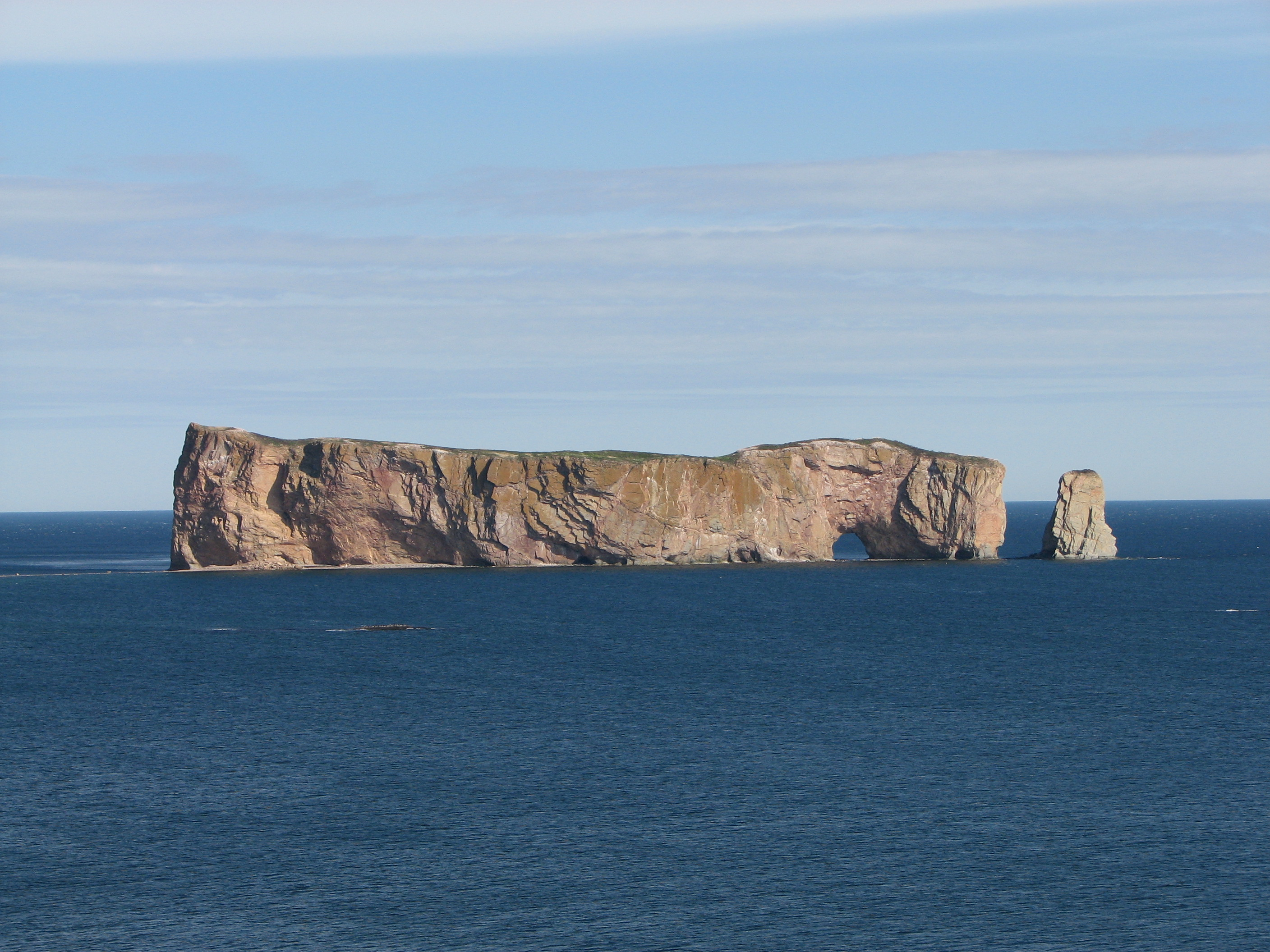 View of Percé Rock, south side full tide. Gaspésie, Québec.